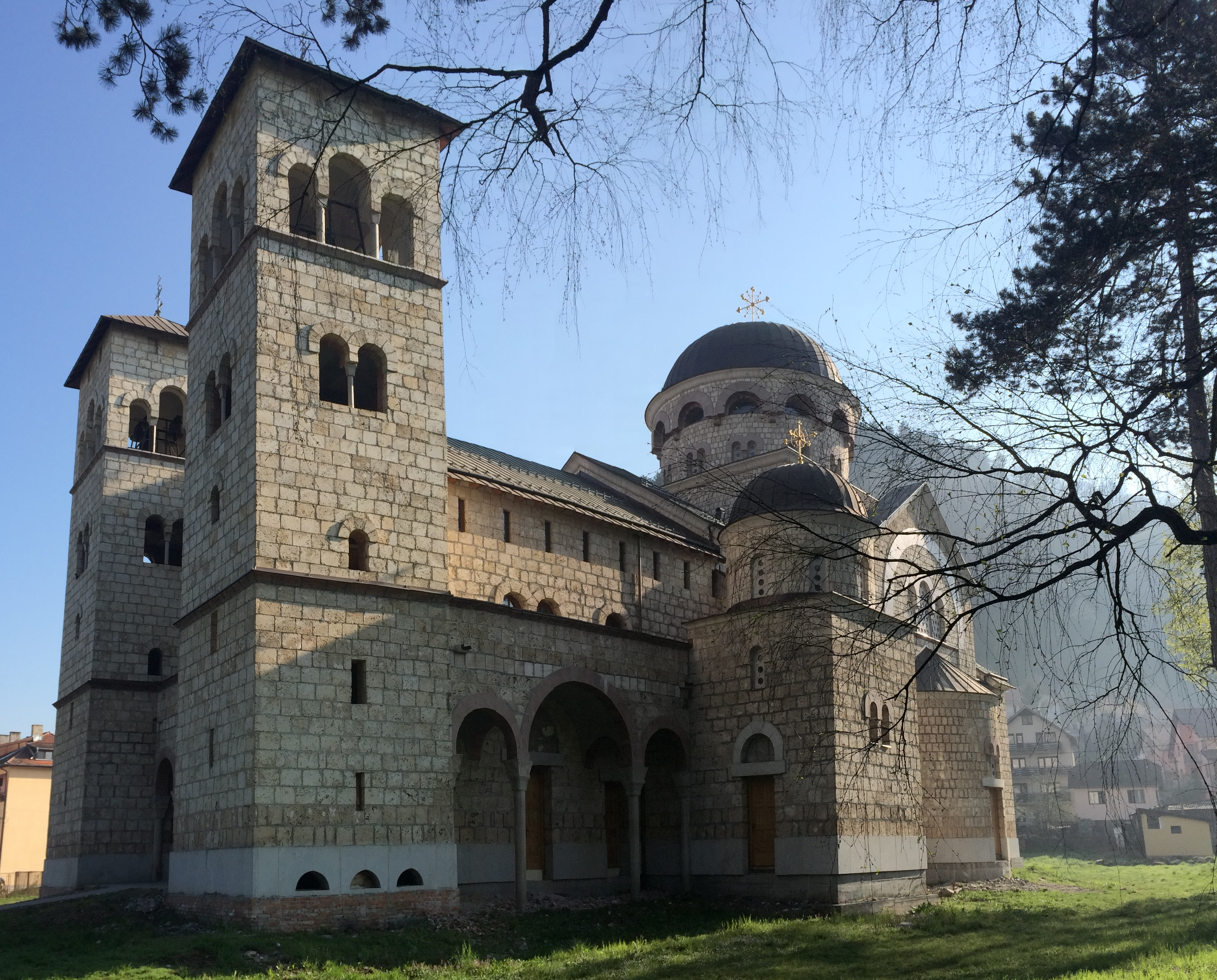 Cathedral of Sct Sava in the city of Foča, Republica Srpska - eastern Bosnia and Hercegovina.